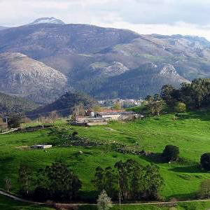 Panoramic from the town of Santa Marina (Cantabria, Spain). Ahead the fields of grass with some plantations of eucalyptus. The bottom we can observe the Cordillera Cantábrica.